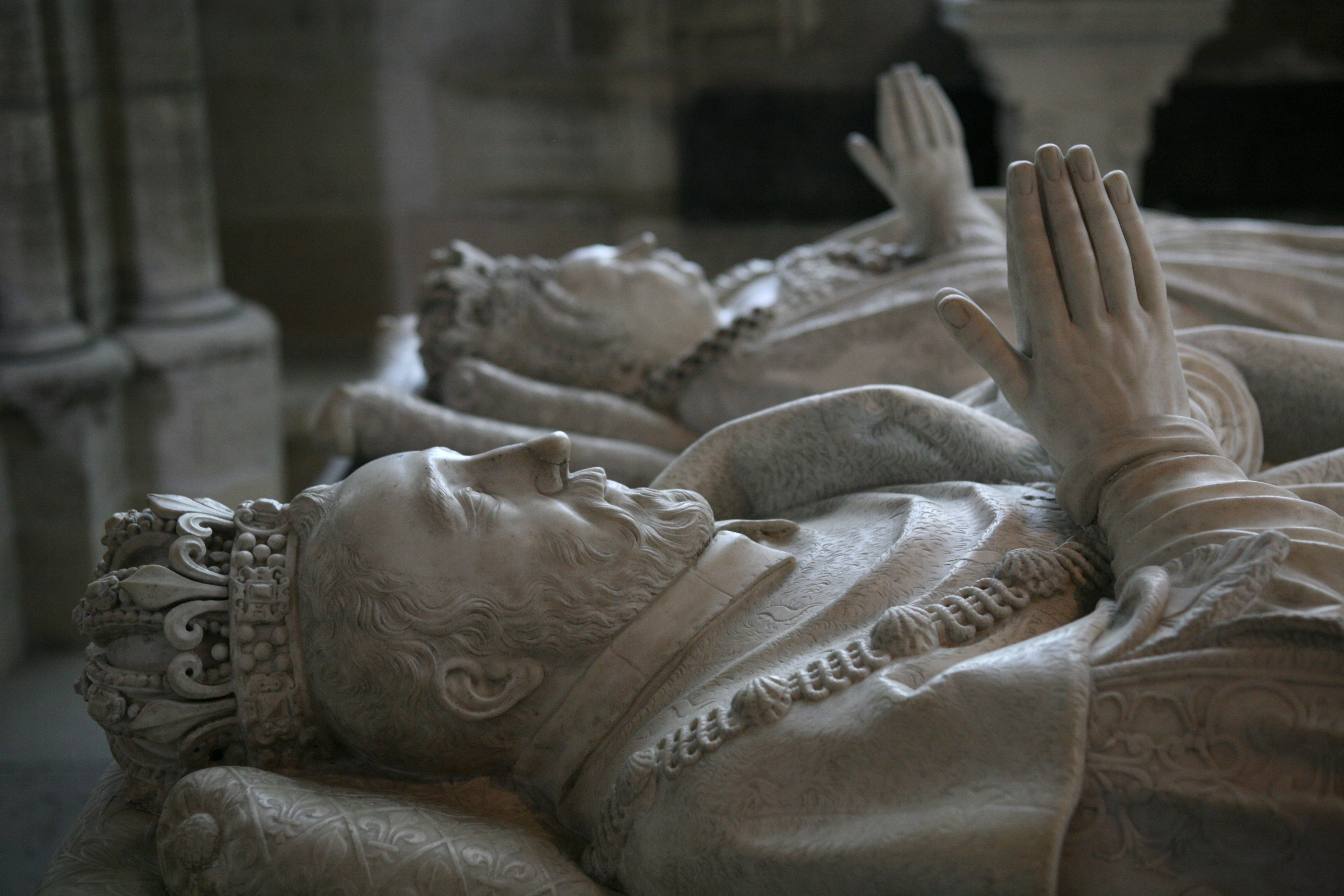 Effigies of Catherine de' Medici and Henry II in coronation vestments